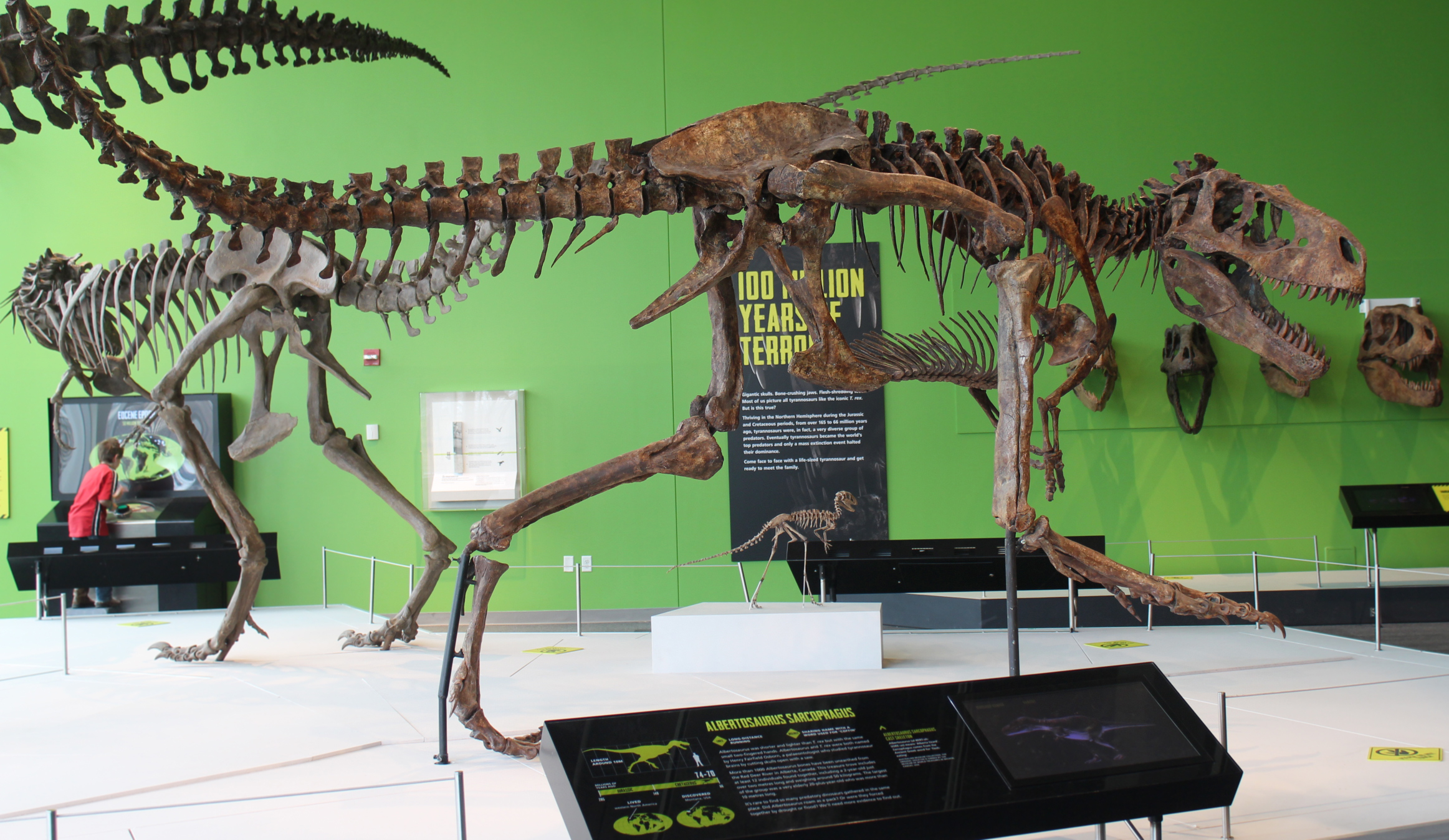 Albertosaurus sarcophagus skeleton mount at the Science Center of Iowa during Tyrannosaurs: Meet the Family.